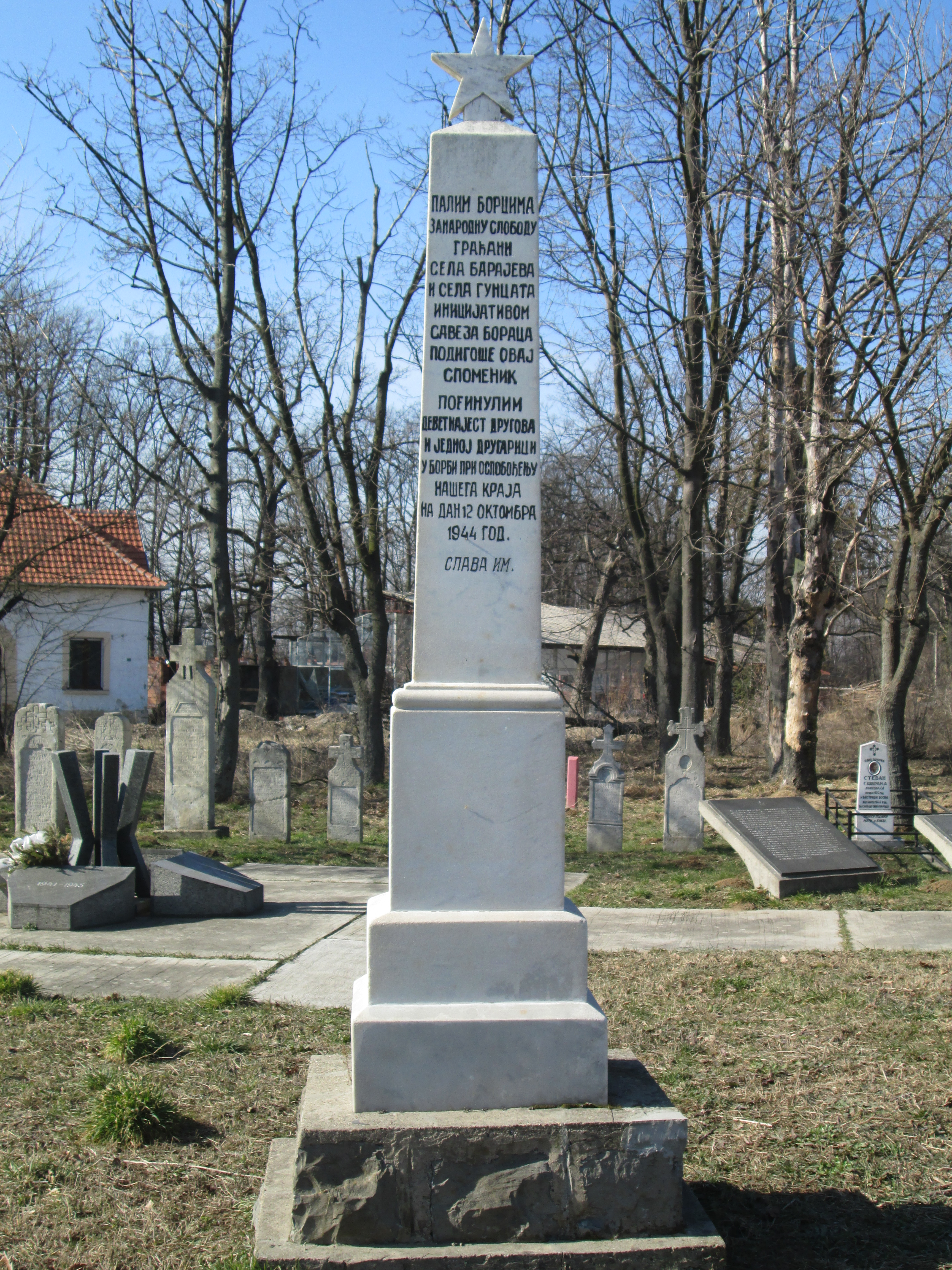 Monument to the fallen locals in WW2, Guncati Српски (ћирилица): Споменик палим борцима у Другом светском рату, Гунцати